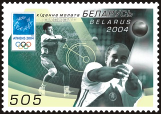 Belarus stamp no. 573, commemorating the 2004 Summer Olympics.